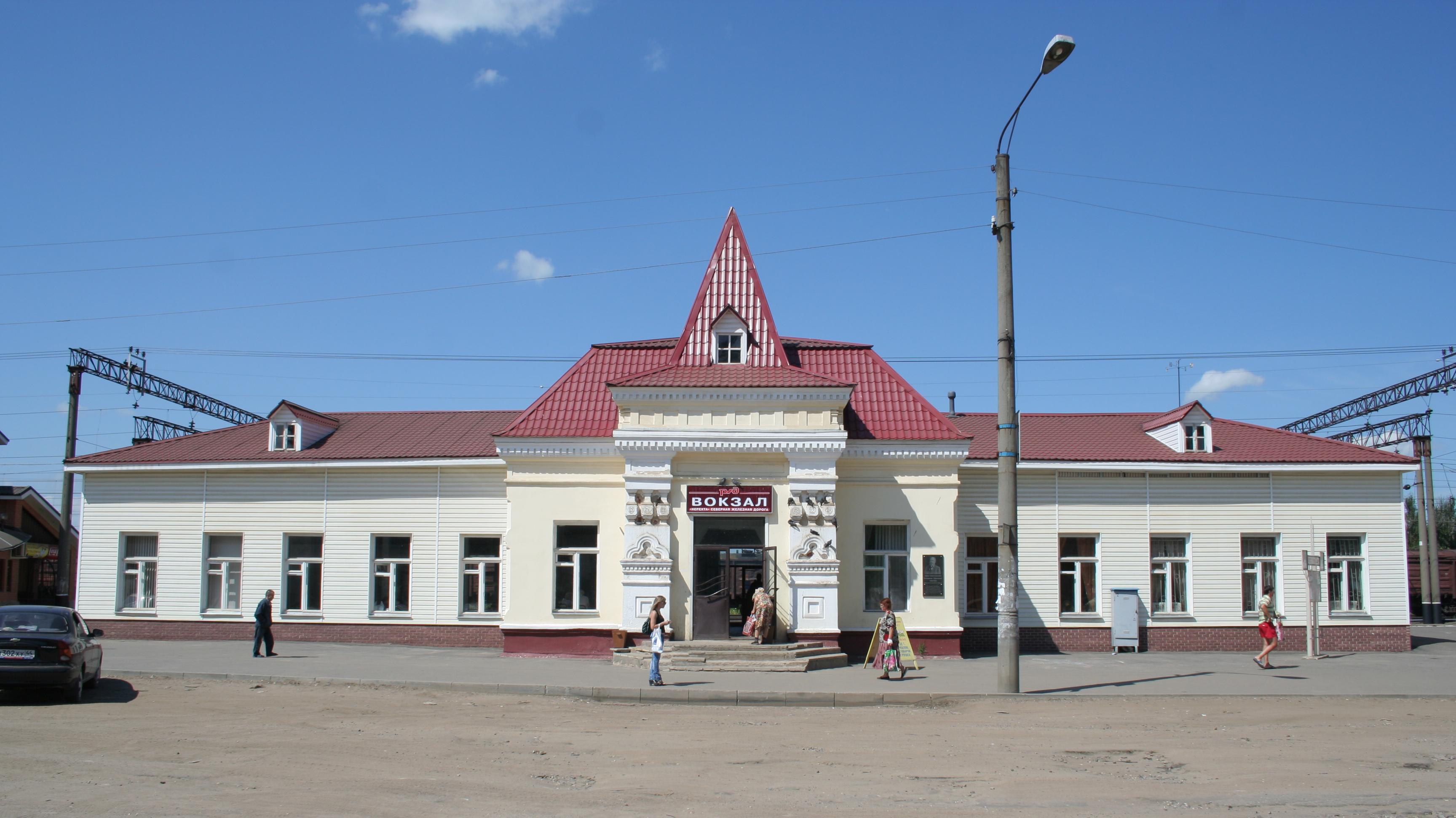 Views of Nerekhta, Kostroma Oblast, Russia. Train station.